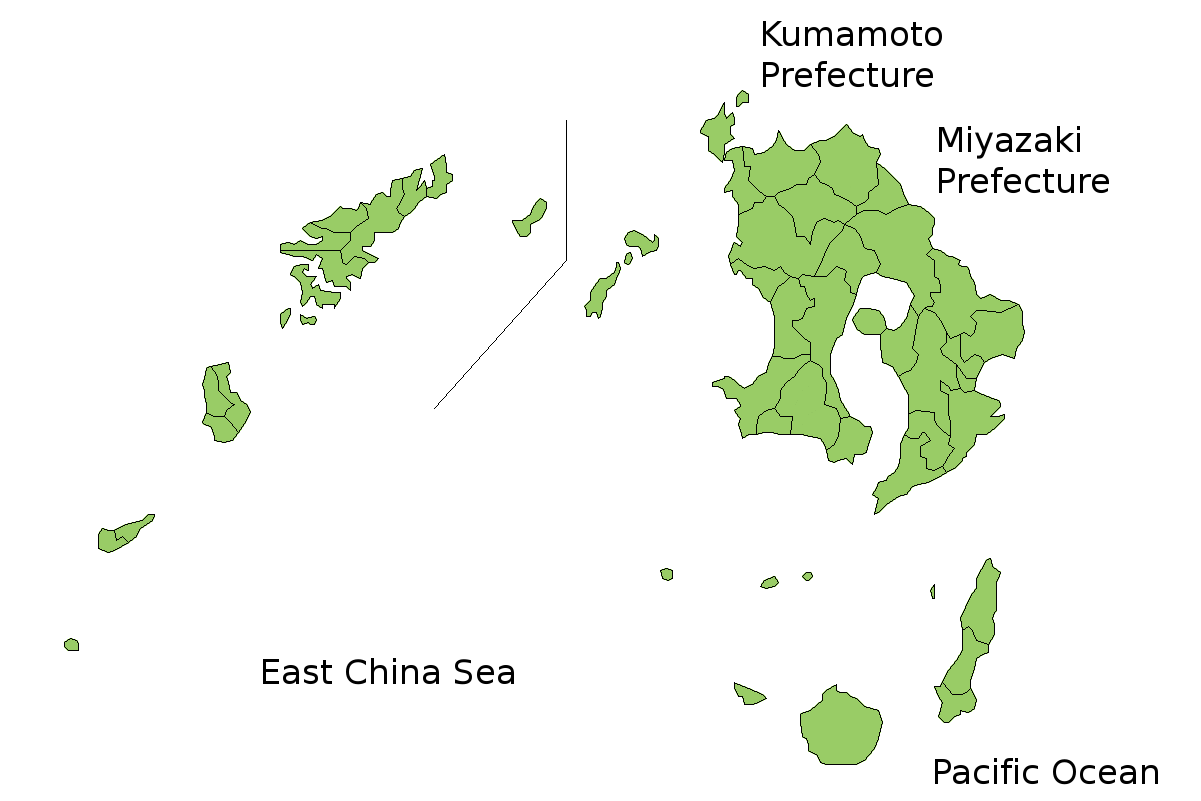 Map of Kagoshima Prefecture, Japan. Thanks to Aoki Shigenobu and [1]. Colors from Image:TokyoMapCurrent.png by User:Fg2.